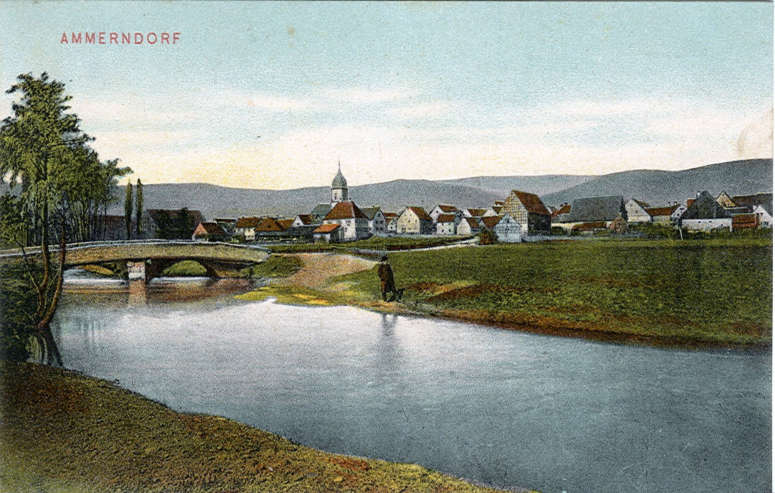 Postcard, dated 9.8.1917. Title: "Ammerndorf"